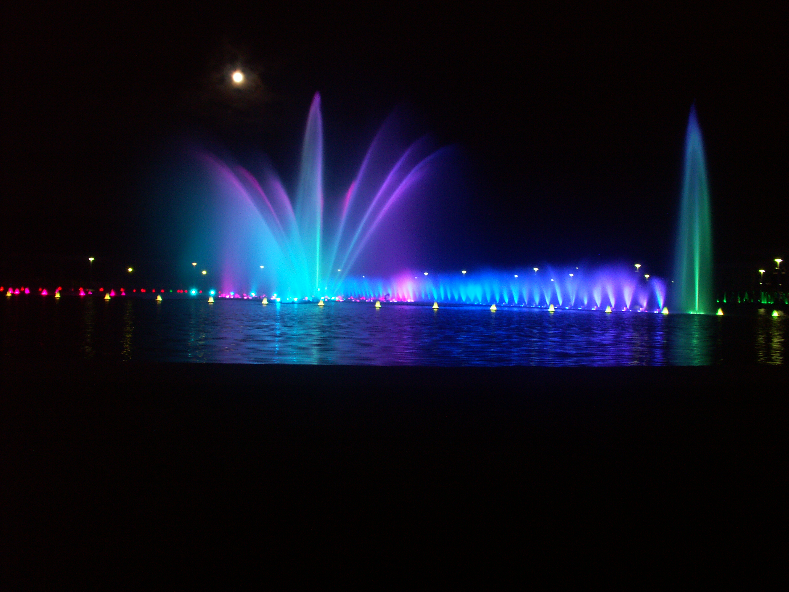 Wrocław Fountain